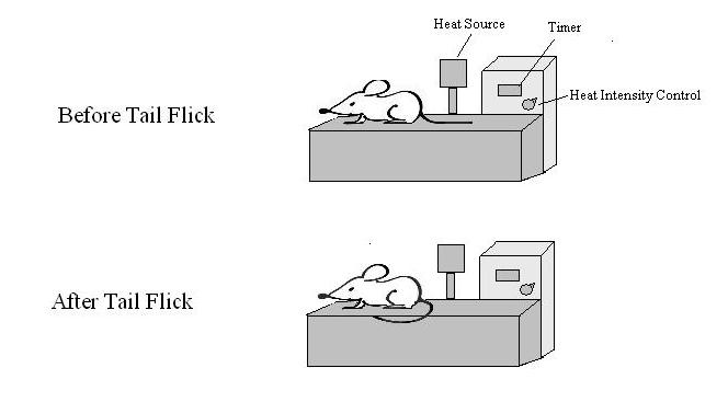 A drawing of a tail flick test apparatus and identification of parts.